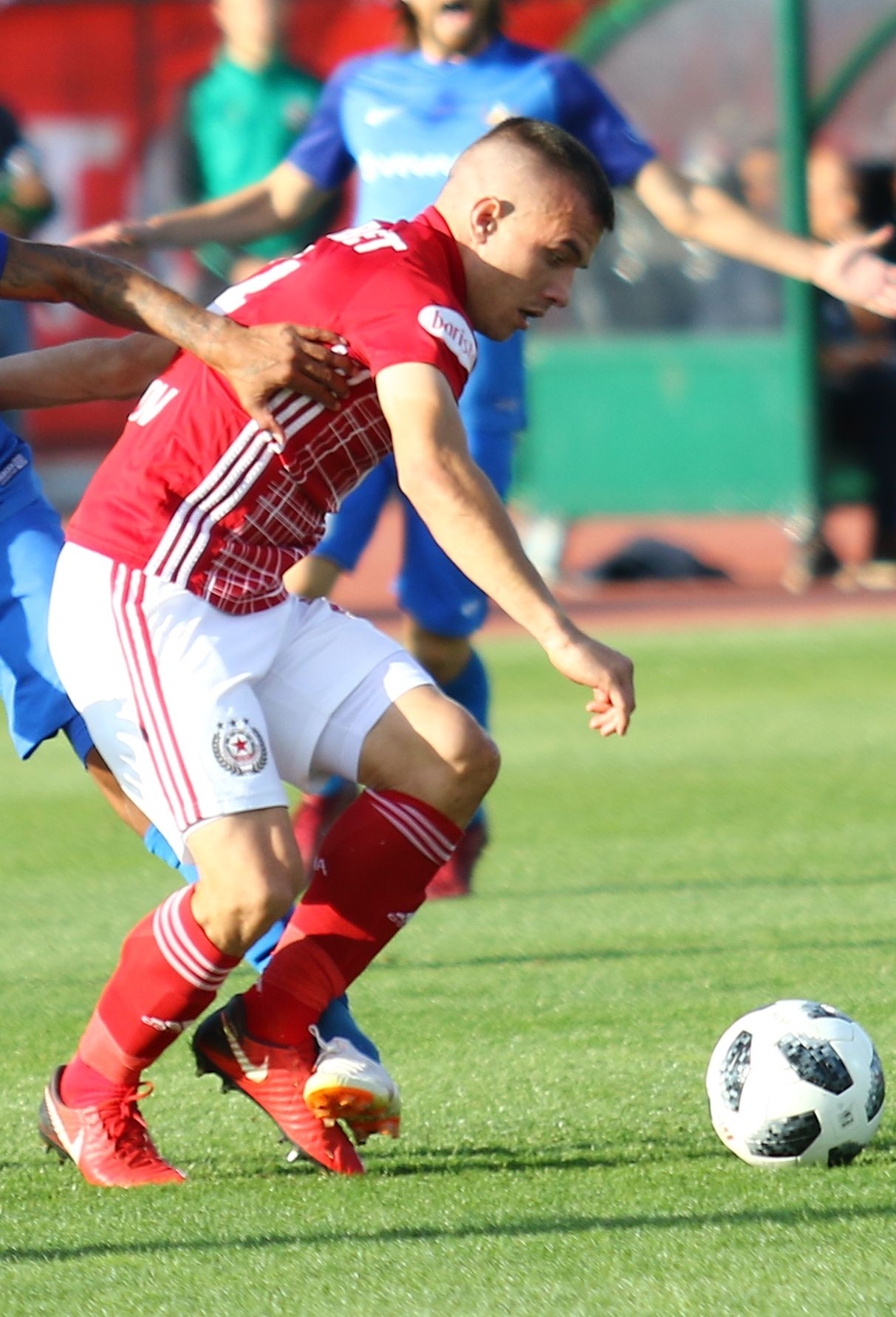 Angel Lyaskov (Bulgarian: Ангел Лясков; born 16 March 1998) is a Bulgarian footballer who plays as a defender for CSKA Sofia.